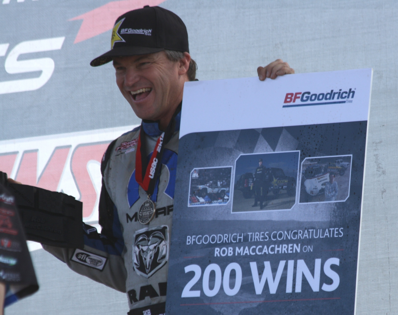 Traxxas TORC off-road racing driver Rob MacCachren celebrates his 200th career win. He won Pro 2 the 2012 World Championships race.